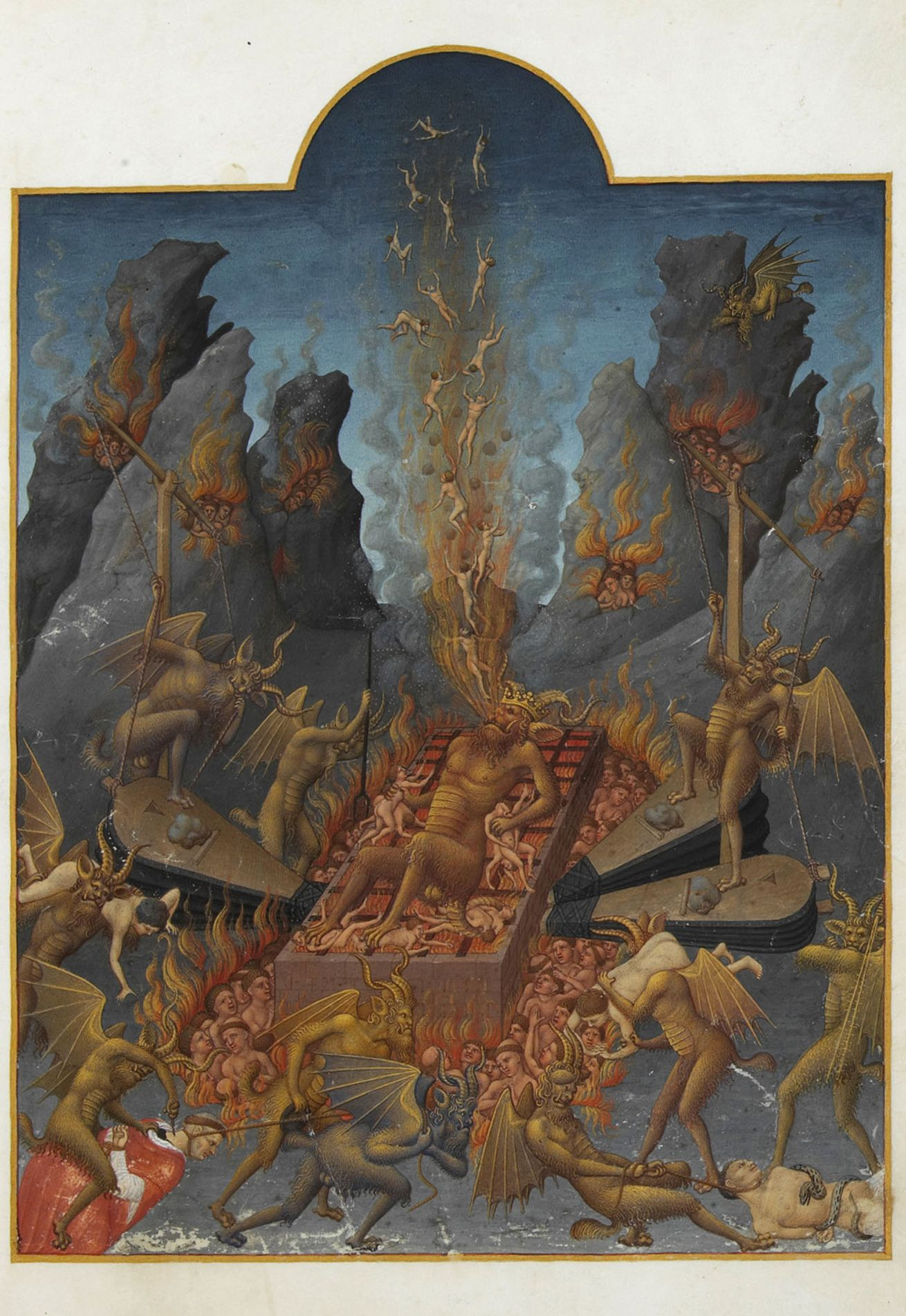 Lucifer - torturing souls as well as being tortured himself in hell